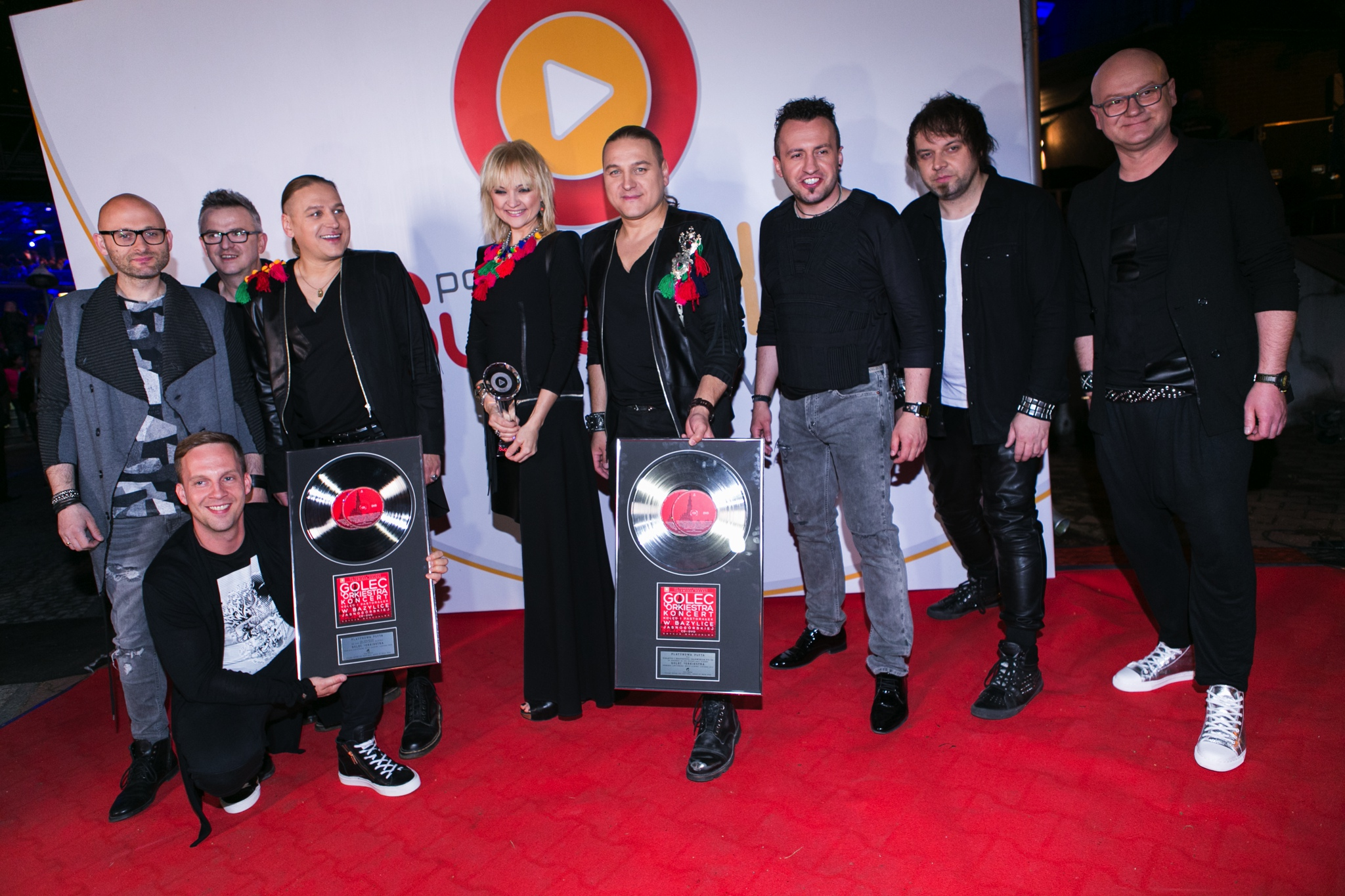 Golec uOrkiestra receiving Platinium Record for Koncert Kolęd i Pastorałek CD + DVD